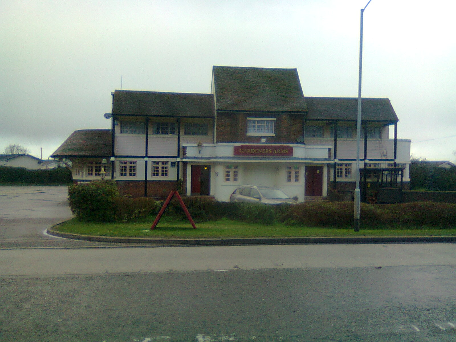 A shot of The Gardeners Arms, the pub used as the setting for the "World's End" in Simon Pegg's film "World's End". Its original name was the Wilbury Hotel, built circa 1930.